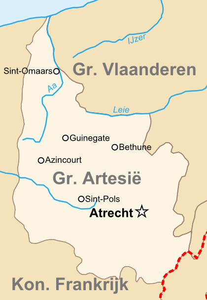 Topographic map of the County of Artois in the late 14th centry.